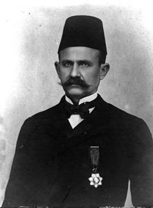 Thomas Papaharizanou